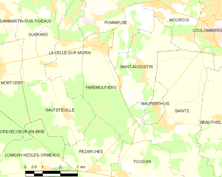 Map of French municipality Faremoutiers